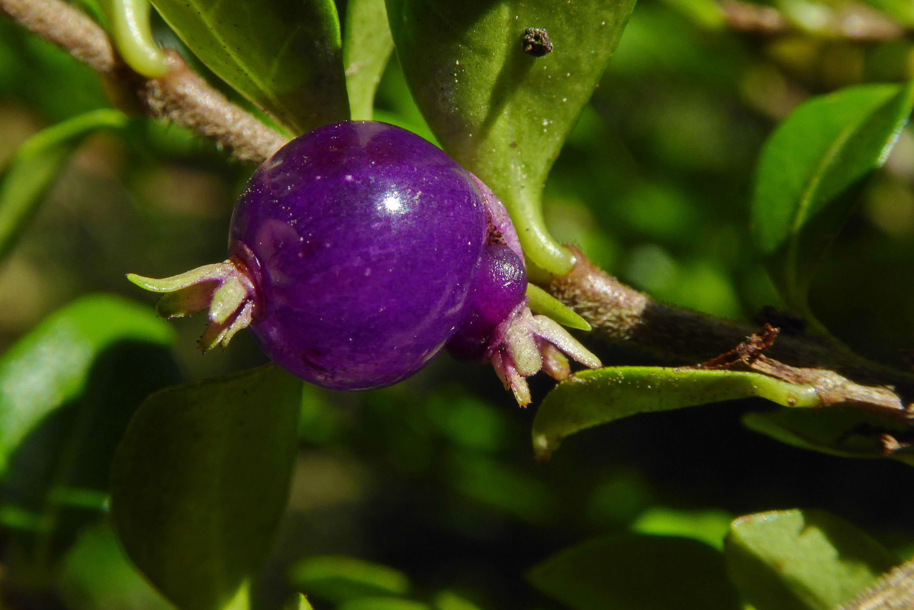 Purple berry of privet honeysuckle (Lonicera pileata), photo was taken in Region Hannover, Lower Saxony, Germany.